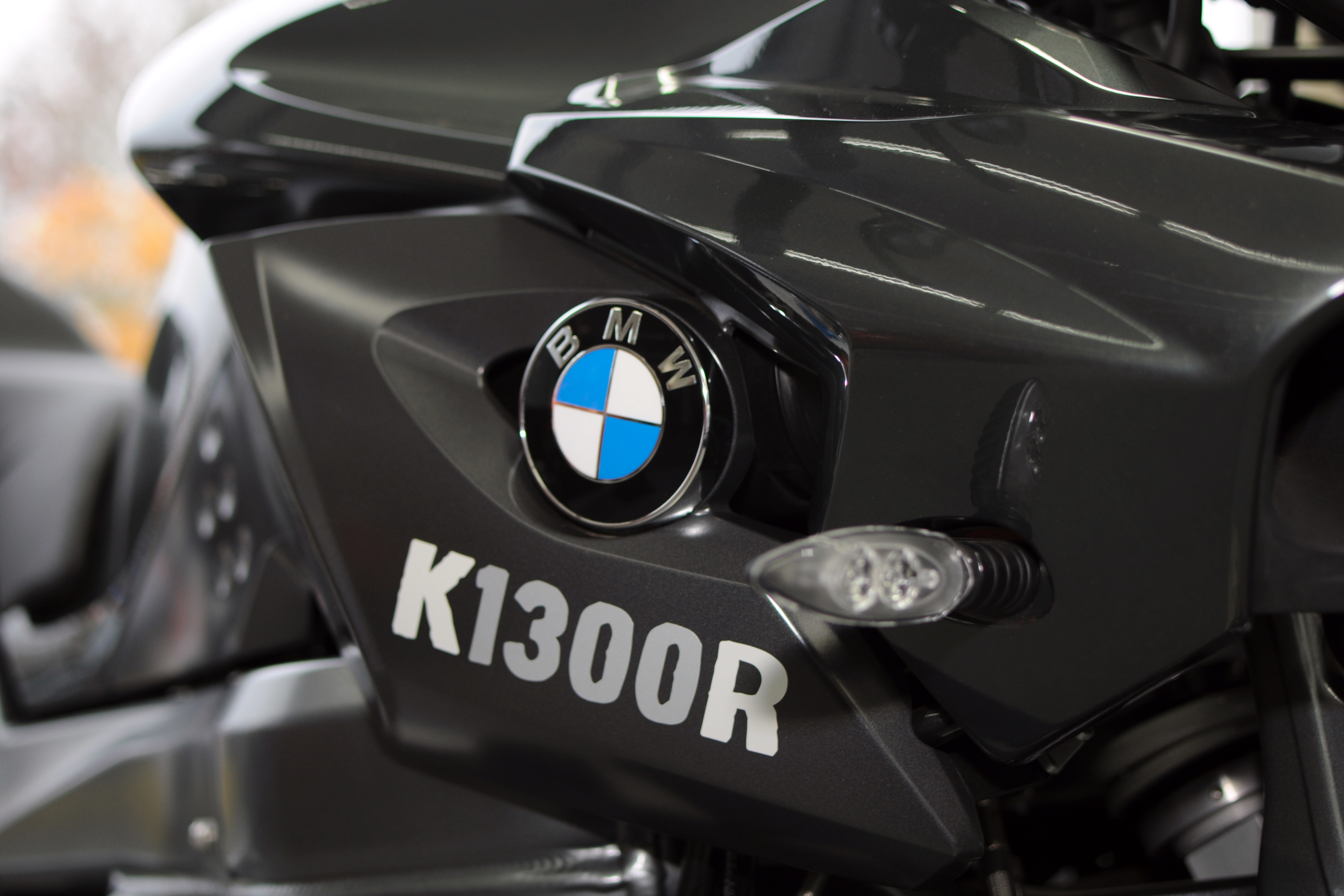 Taken at the Pistonheads Sunday Service at BMW UK.